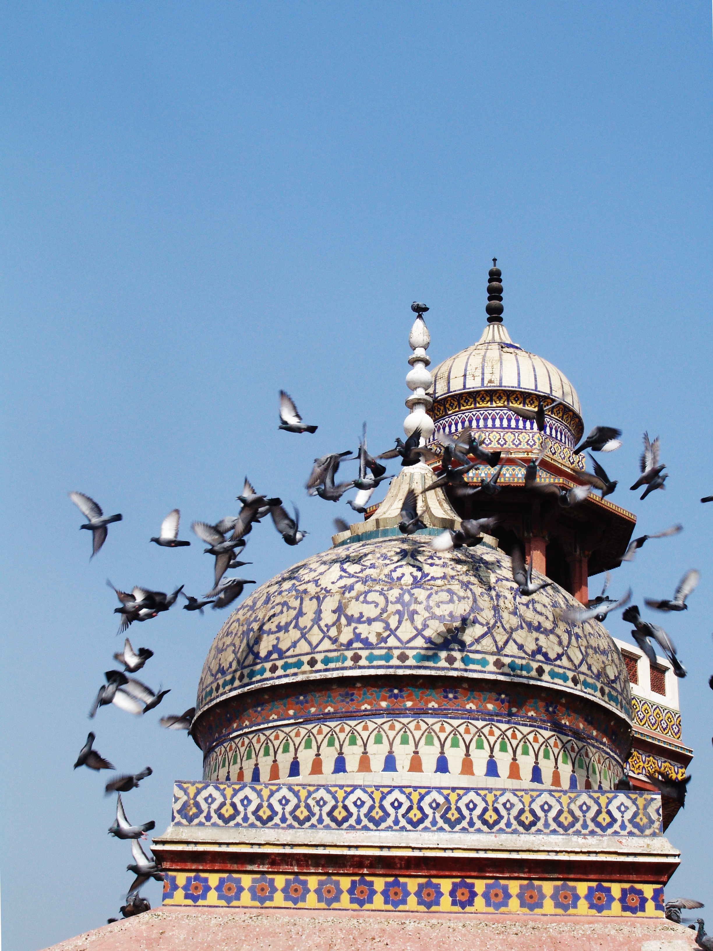 Wazir Khan Mosque This is a photo of a monument in Pakistan identified as the PB-100